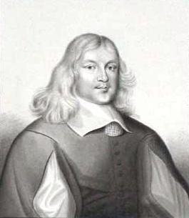 John Bradshaw (1602-1659)